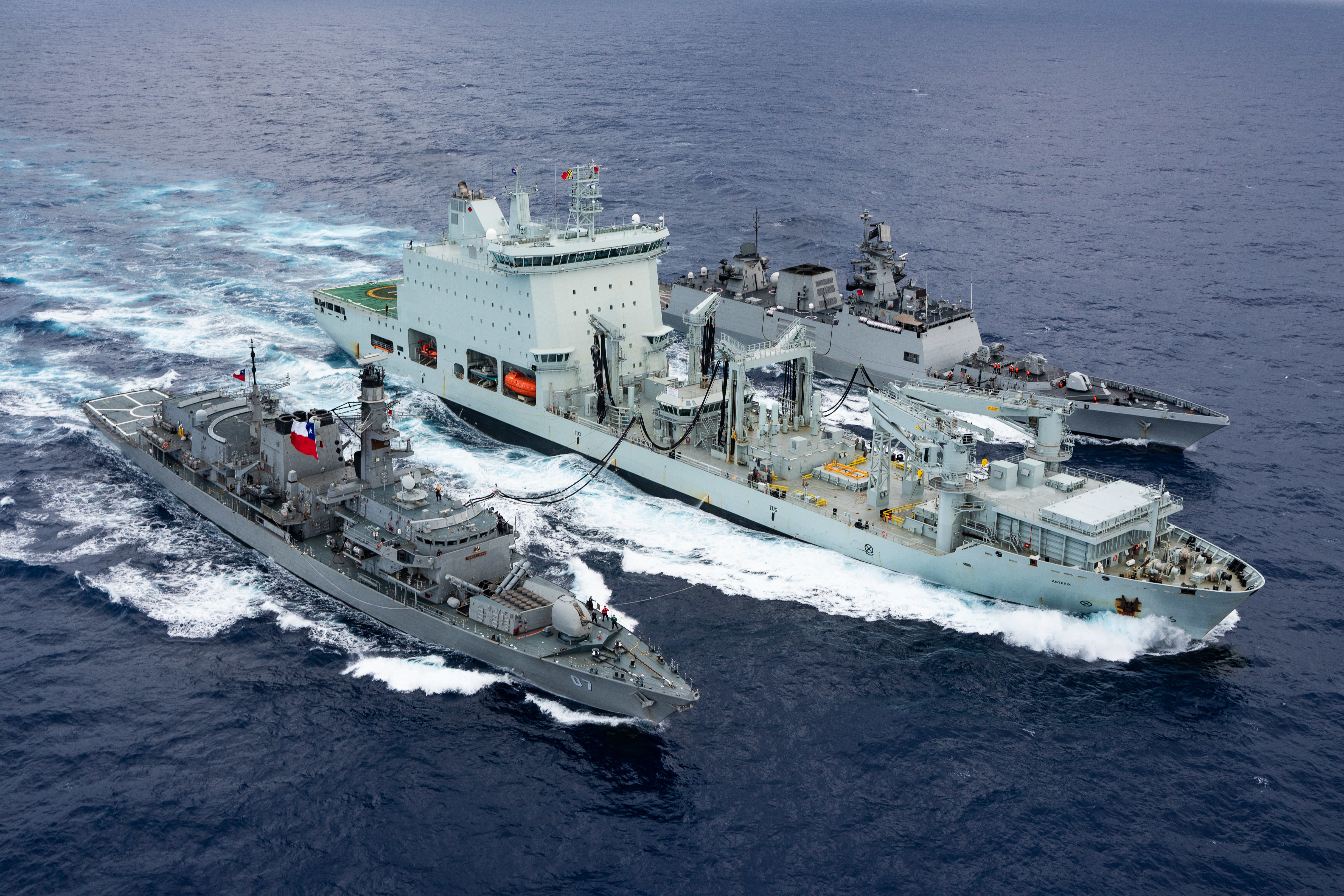 The Chilean Navy frigate Almirante Lynch (FF-07) and the Indian Navy frigate INS Sahyadri (F49) perform a replenishment-at-sea with the Royal Canadian Navy supply ship Asterix off the coast of Hawaii during Rim of the Pacific (RIMPAC) 2018 exercise on 28 July 2018.